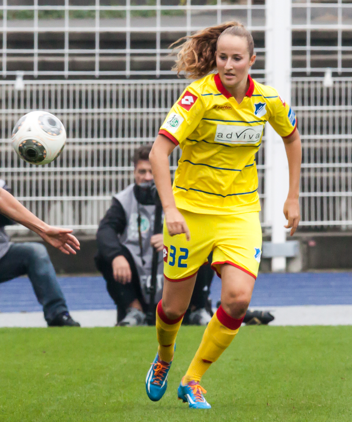 German Women Bundesliga soccer game: FF USV Jena vs. TSG 1899 Hoffenheim, 2014-10-11, at Ernst-Abbe-Sportfeld Jena.